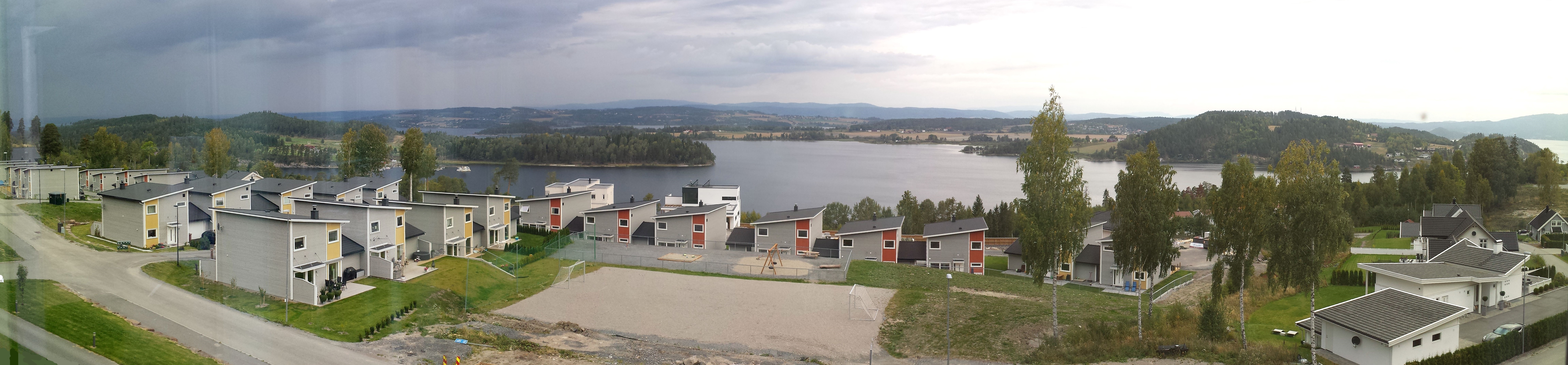 View from the Klokkerlia housing development, Nes in Hole, South Norway